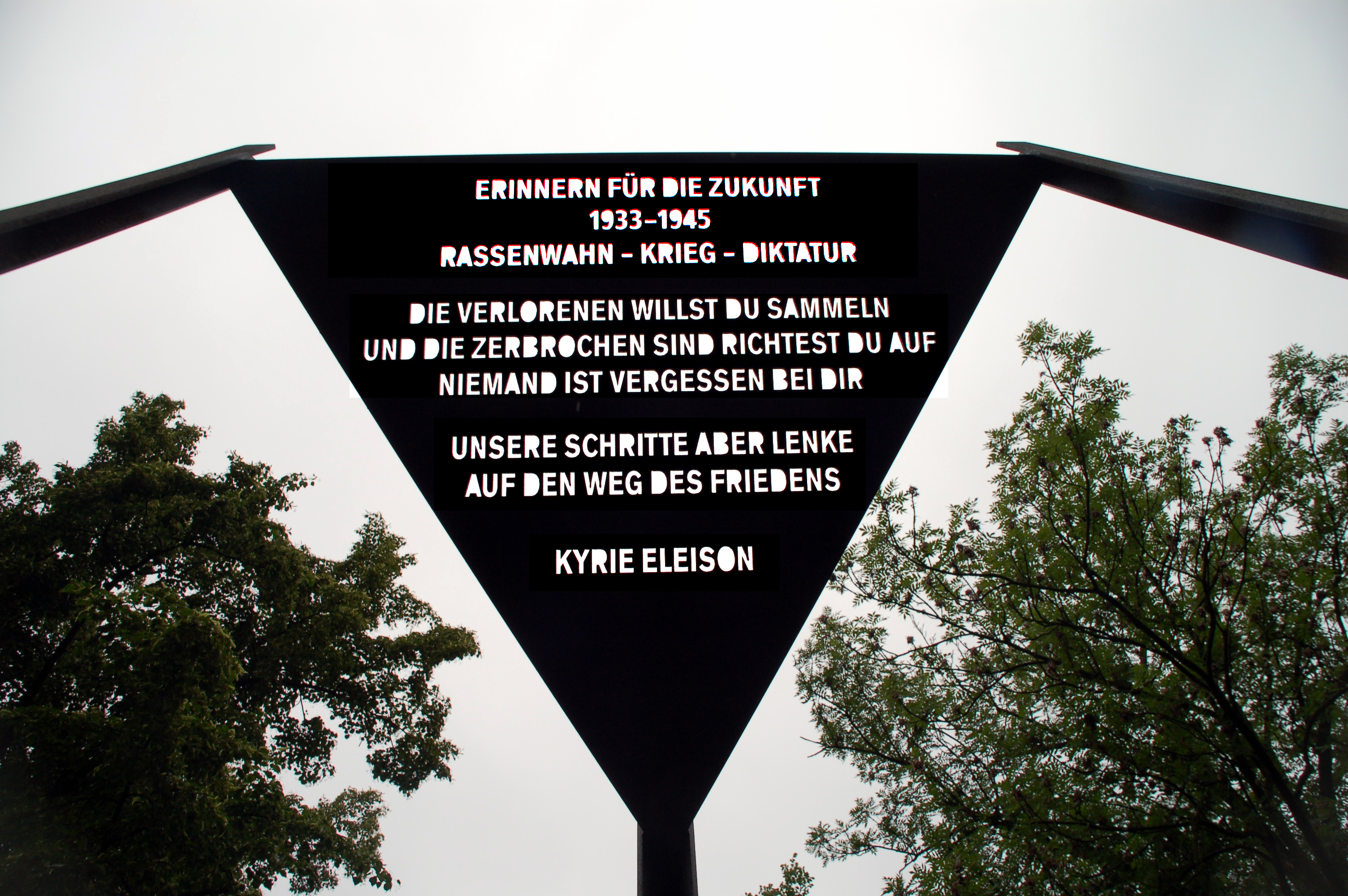 image: Memorial.Cemetery.St.-Annen-Church.Berlin-Dahlem.jpg, Image: image produced by Berkan, 2007, picture shows “Memorial.Cemetery.St.-Annen-Church.Berlin-Dahlem”, Berlin-Dahlem, Germany